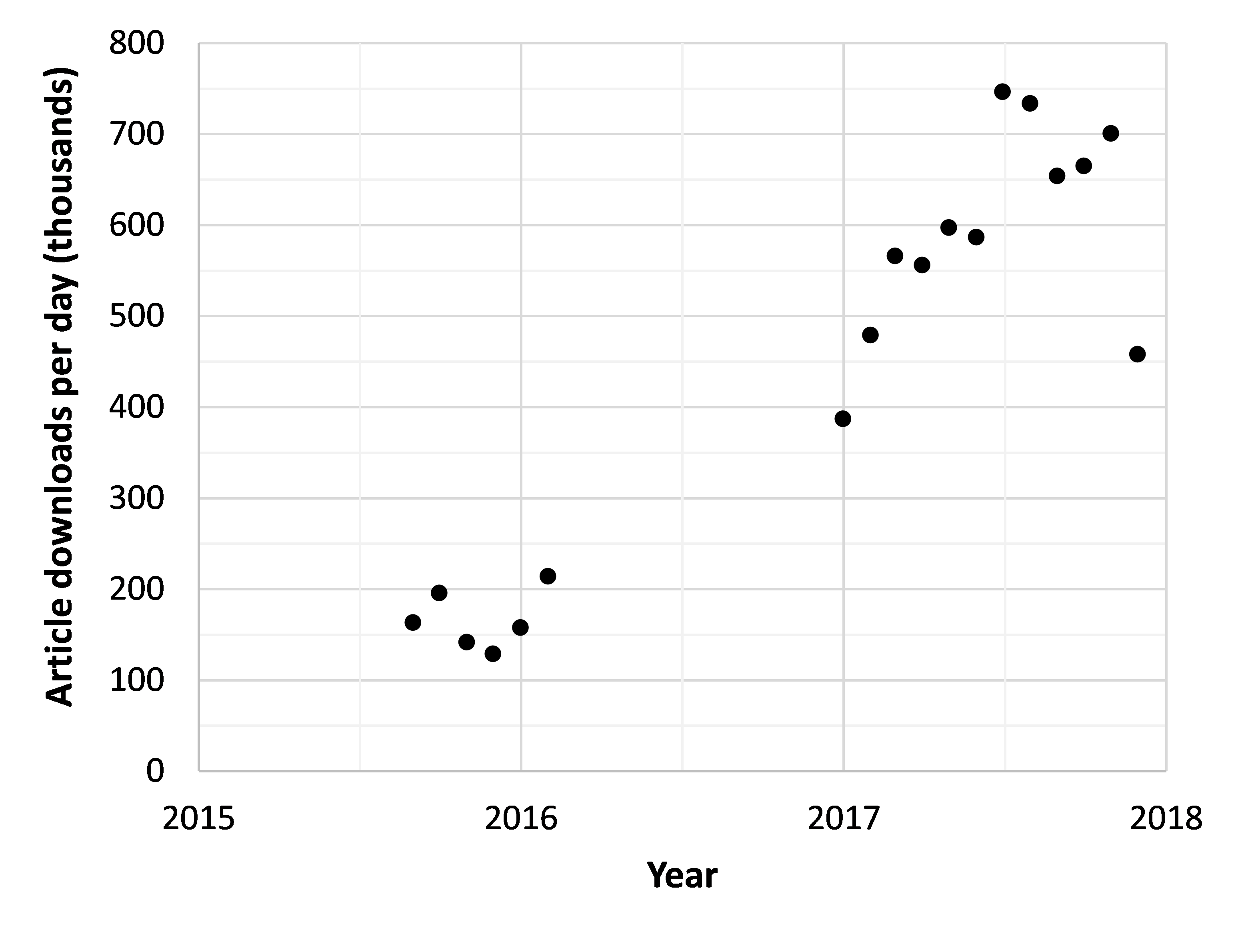 Download rate for articles on sci hub based on data from: Publication = Github Repo =